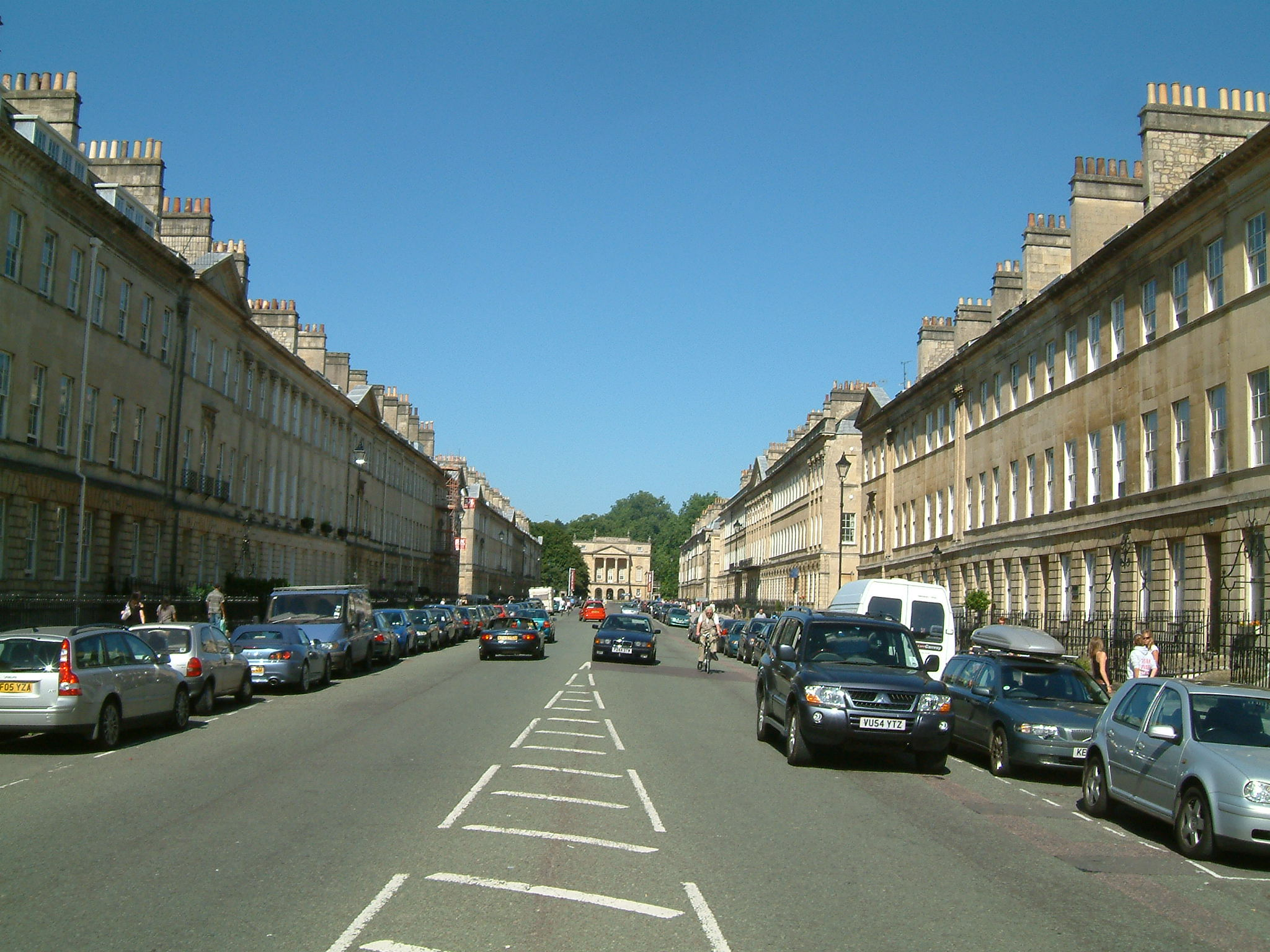 Great Pulteney Street, Bath, England, United-Kingdom